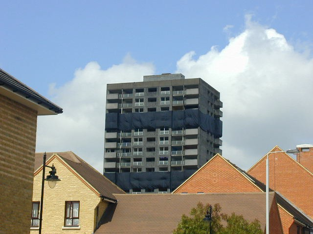 Hornbeam Tower, Cathall Road Estate, Leytonstone, London. August 11th 2002. The twin Cathall Road Towers in Leytonstone London were demolished to make way for the last stage of the cathall road redevelopment project replacing outdated 1960s social housing with modern community designed low rise housing. The Hornbeam & Redwood Towers took just 7 seconds to completely fall. See the video